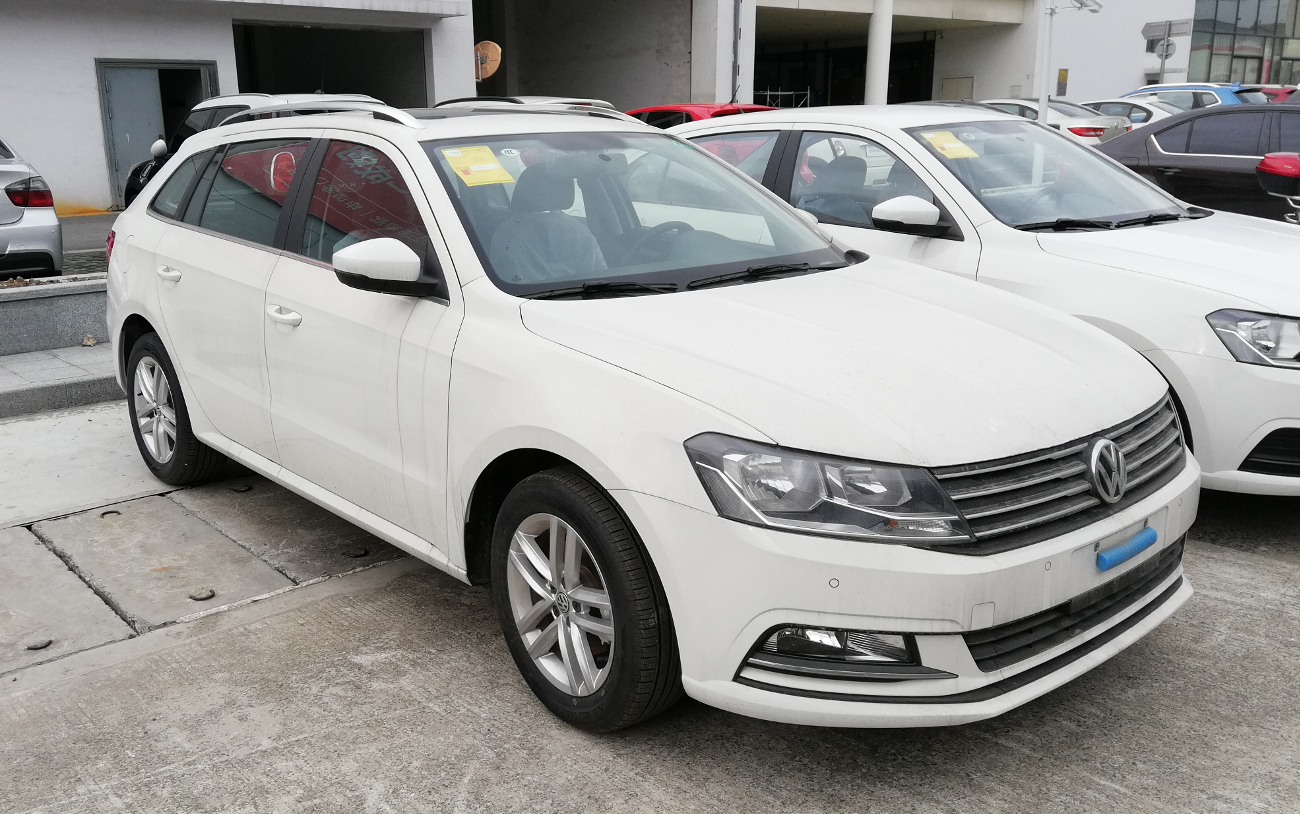 Volkswagen Gran Lavida facelift photographed in Shanghai, China.